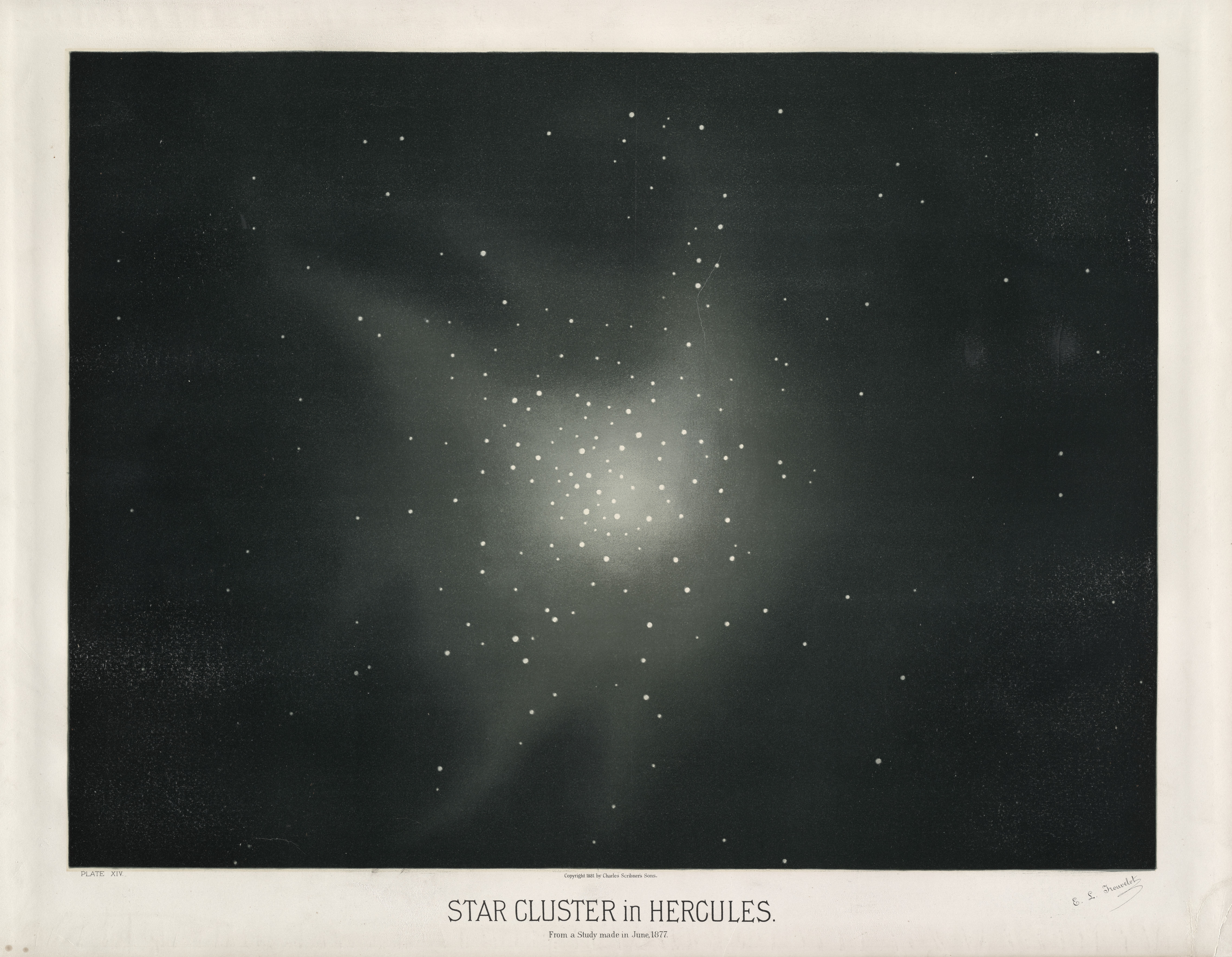 Star cluster Messier 13 in Hercules. From a study made in June, 1877. (Plate XIV from The Trouvelot Astronomical Drawings 1881)